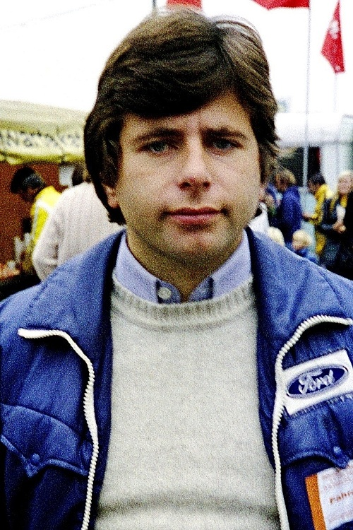 German racing driver Klaus Ludwig pictured at the Circuit Zolder in Belgium in the Summer of 1975.